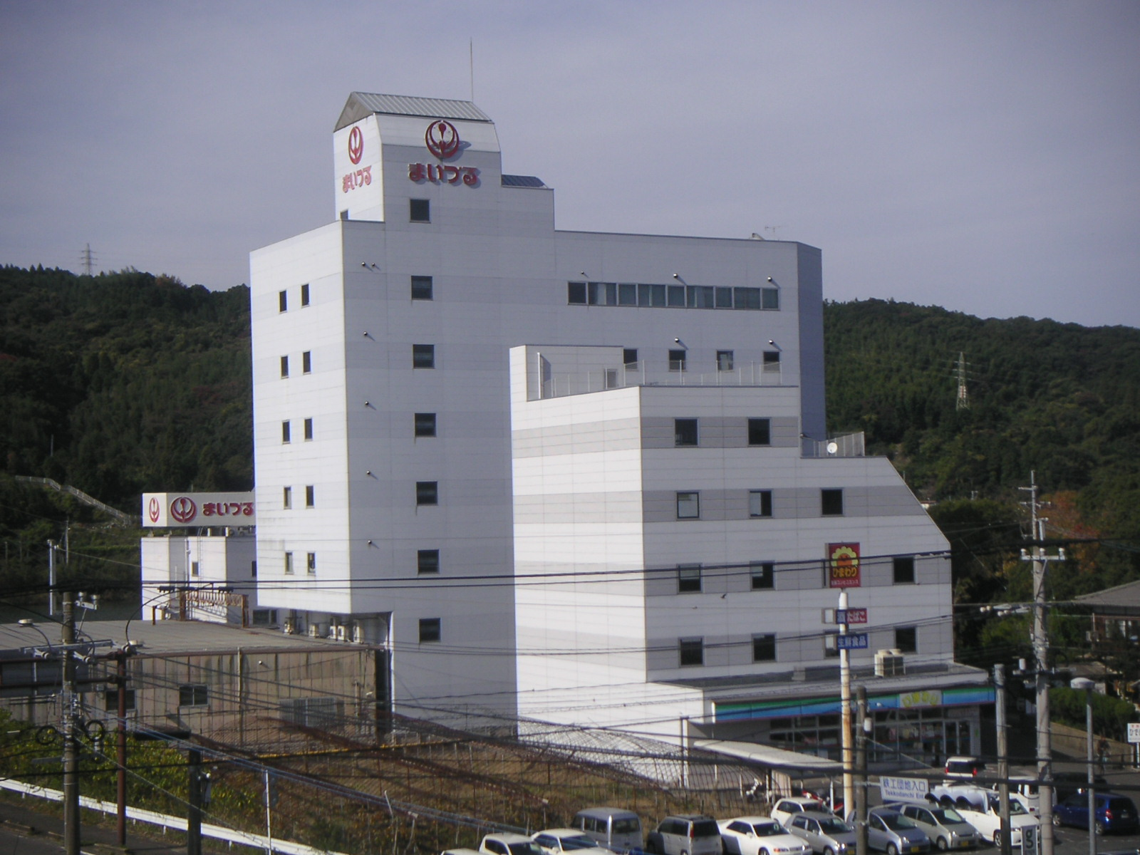 Maizuru Depart